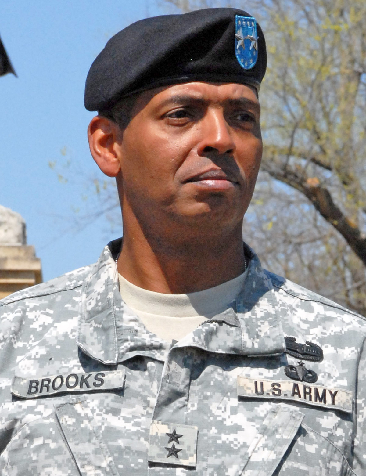 Major General Vincent K. Brooks, US Army, commanding general 1. Infantry Division (US)